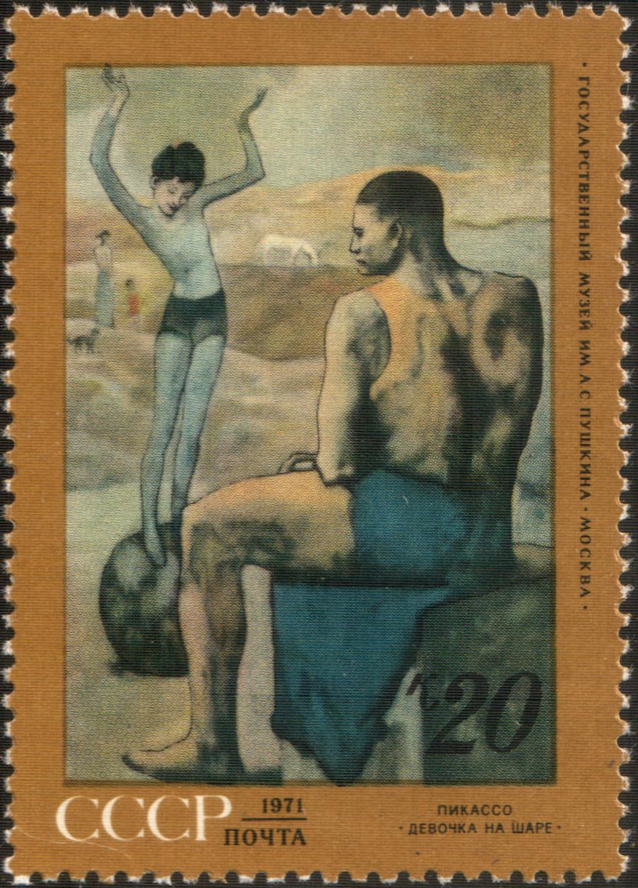 USSR stampː Child on Ball (Pablo Picasso). Seriesː Foreign Paintings in the Soviet Union Museums